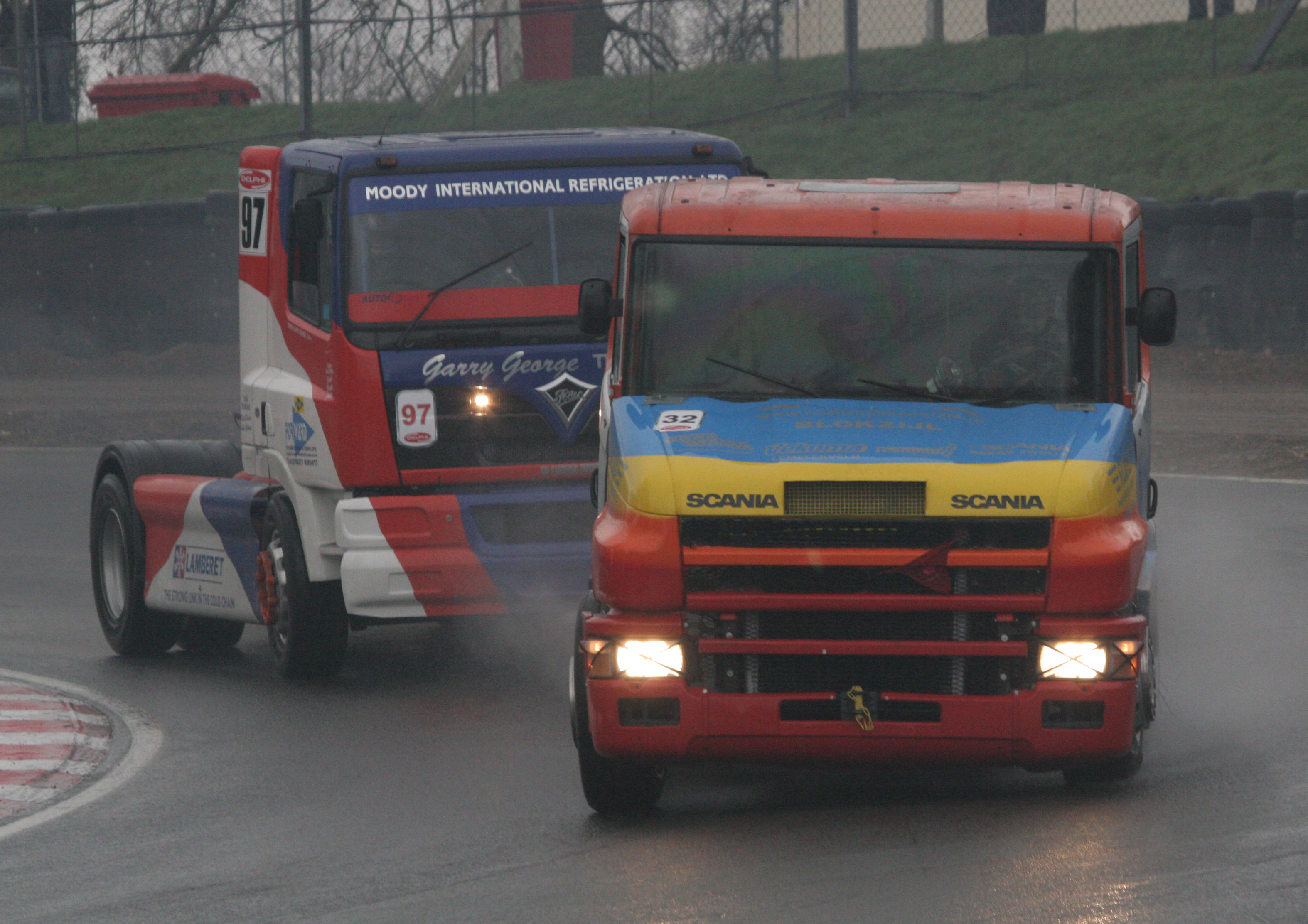 Truck racing